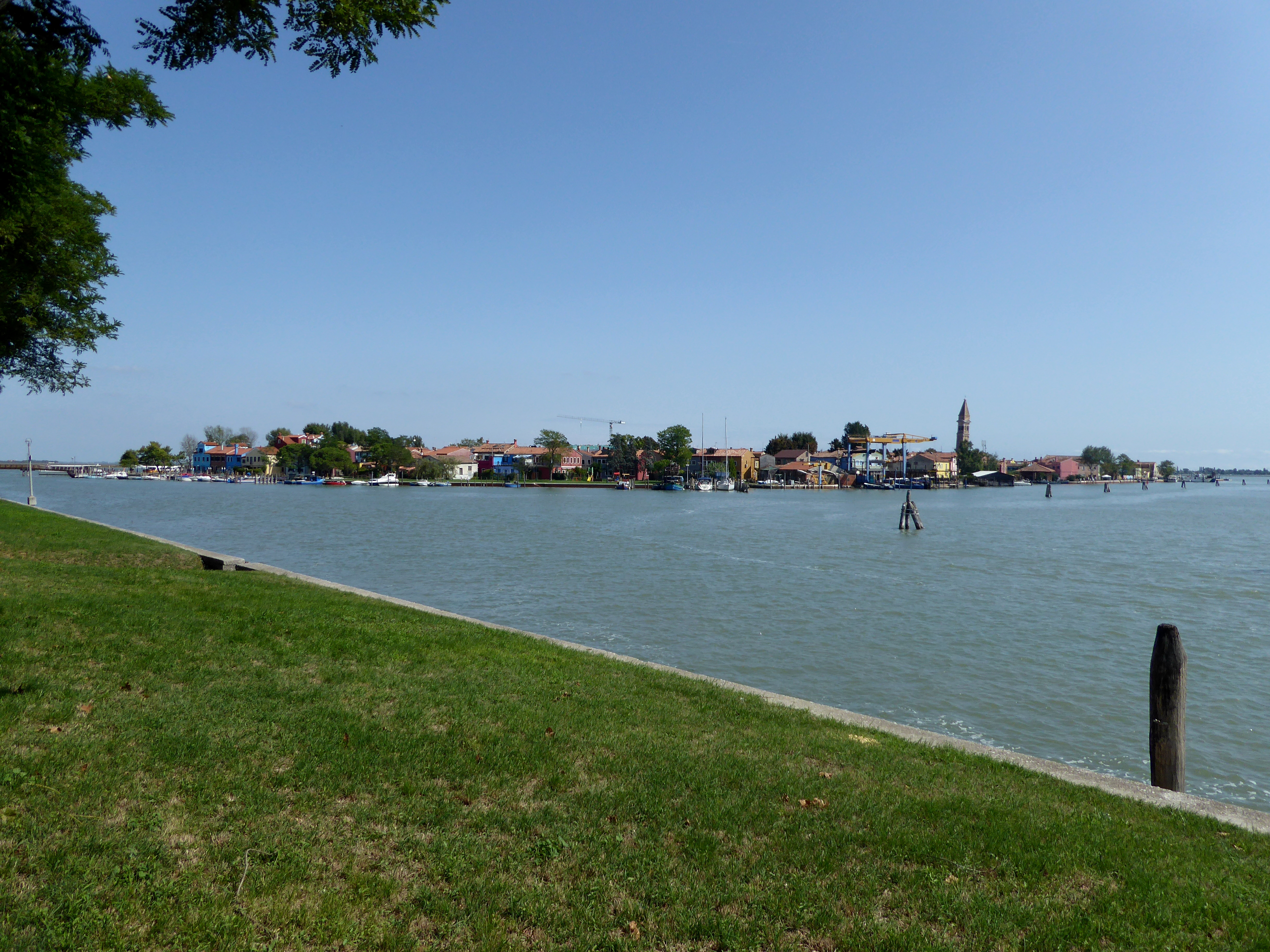 Burano, as seen from the eastern side of Mazzorbo in Veneto.